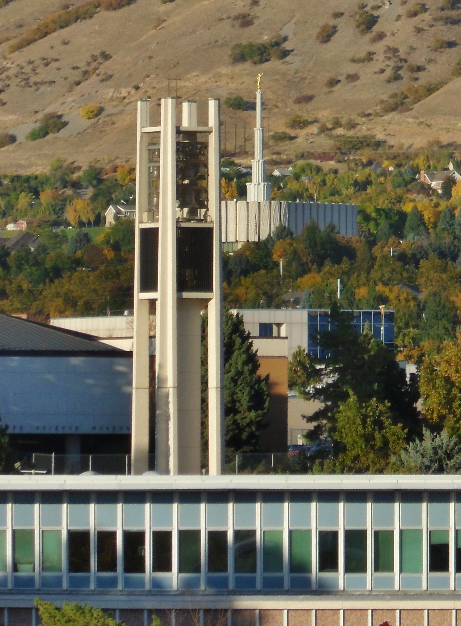 Brigham Young University Centennial Carillon Tower with the LDS Provo, Utah Temple in the background